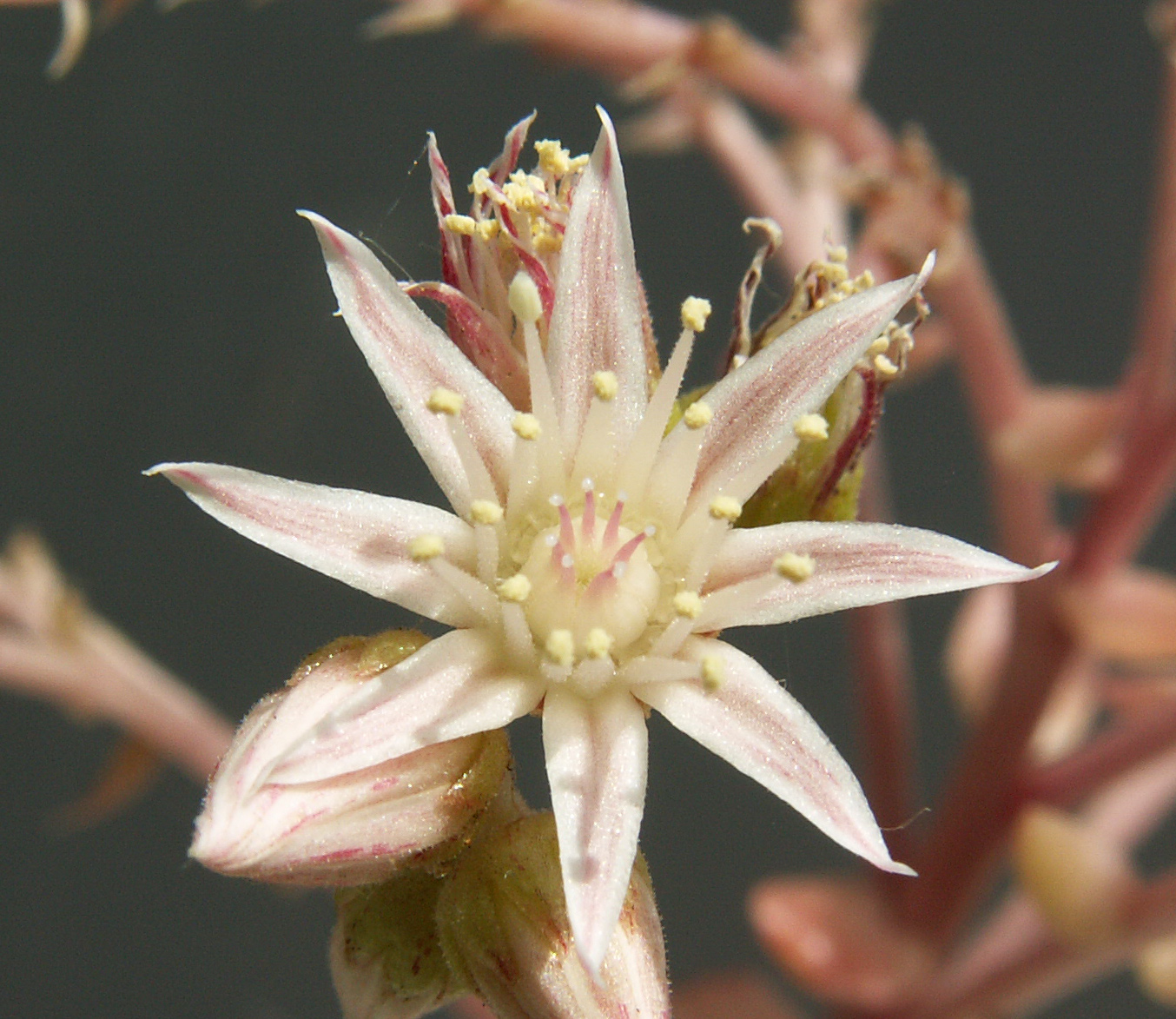 Aeonium haworthii